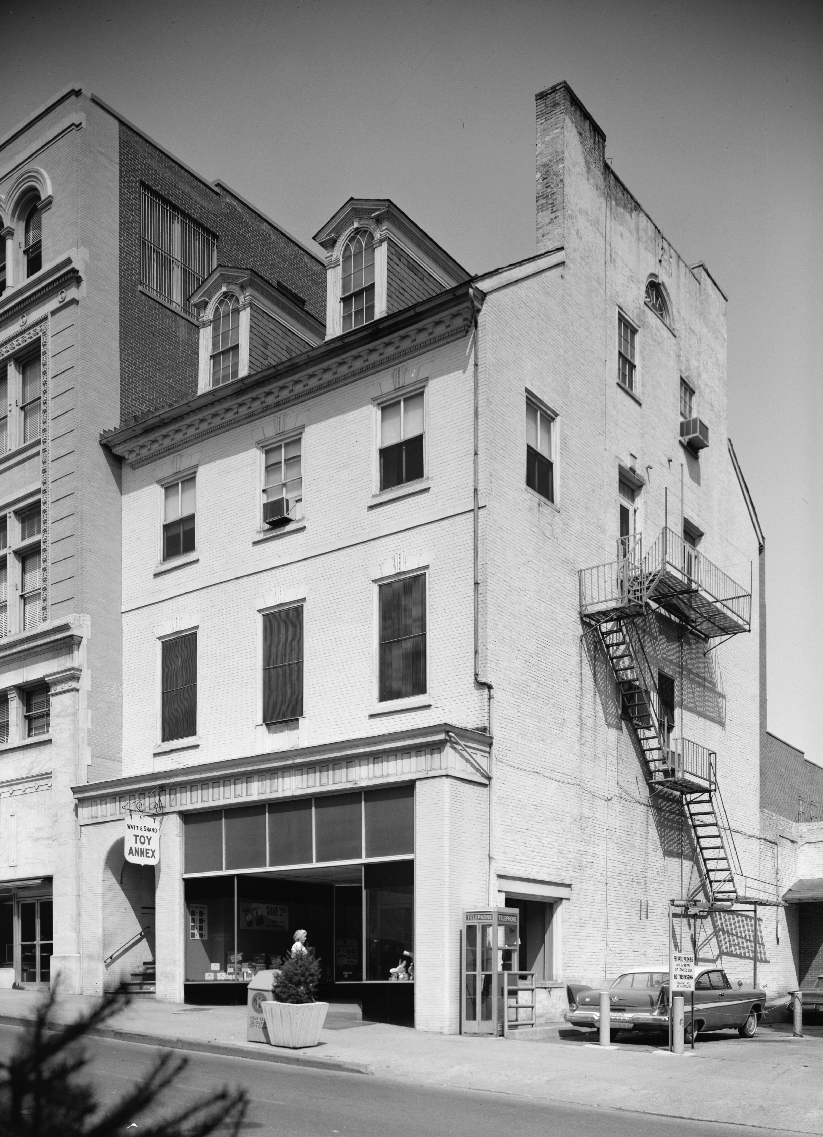 William Montgomery House in Lancaster, Pennsylvania. Original number was "HABS PA,36-LANC,5-1", original caption was "General view and west front facade, looking northeast."